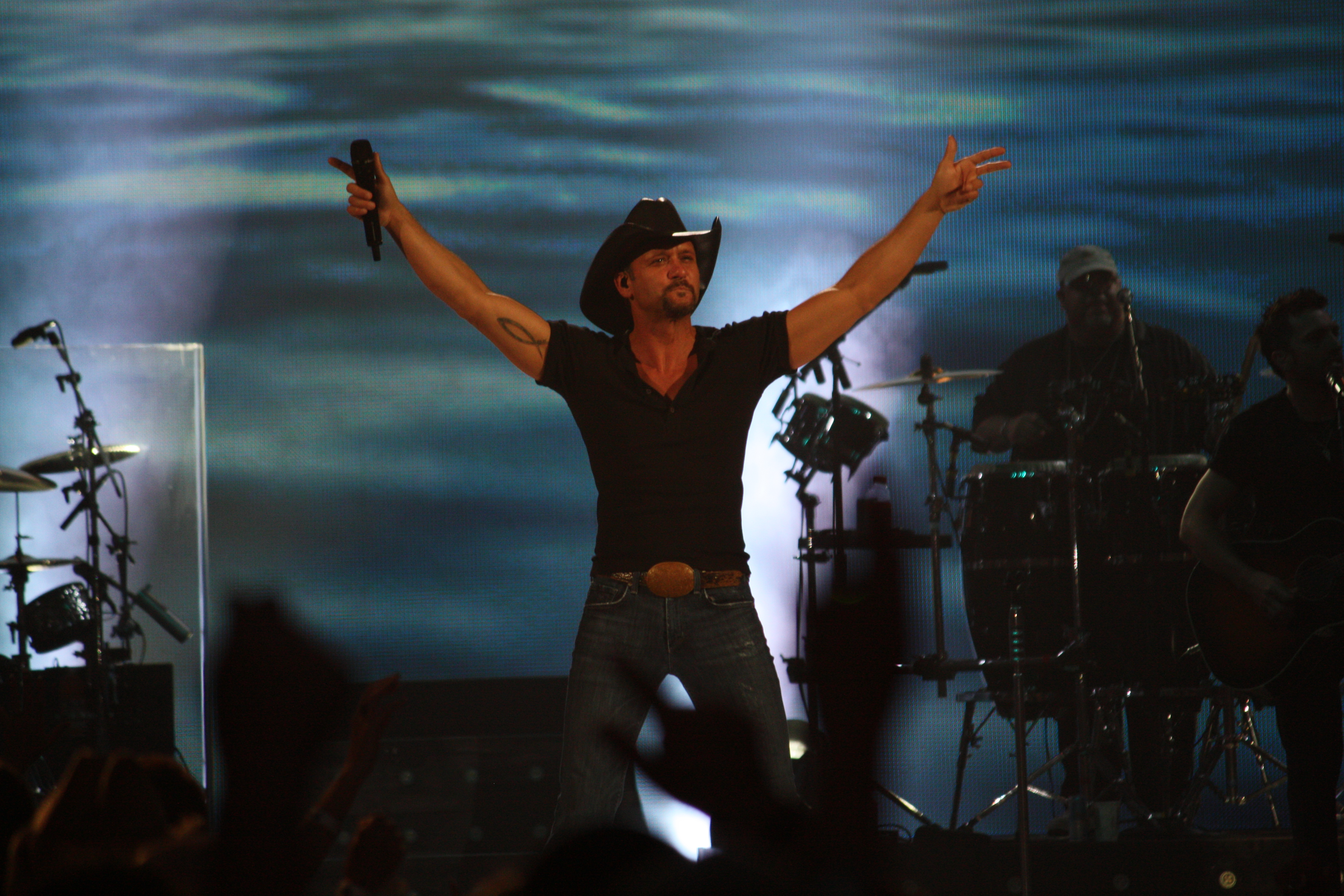 McGraw performing at Charleston's Best Country 2010.